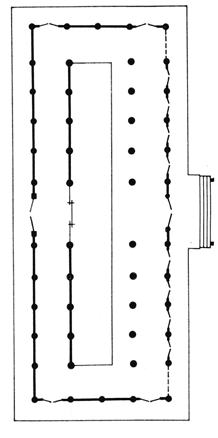 Layout of Joruri Temple, Kyoto